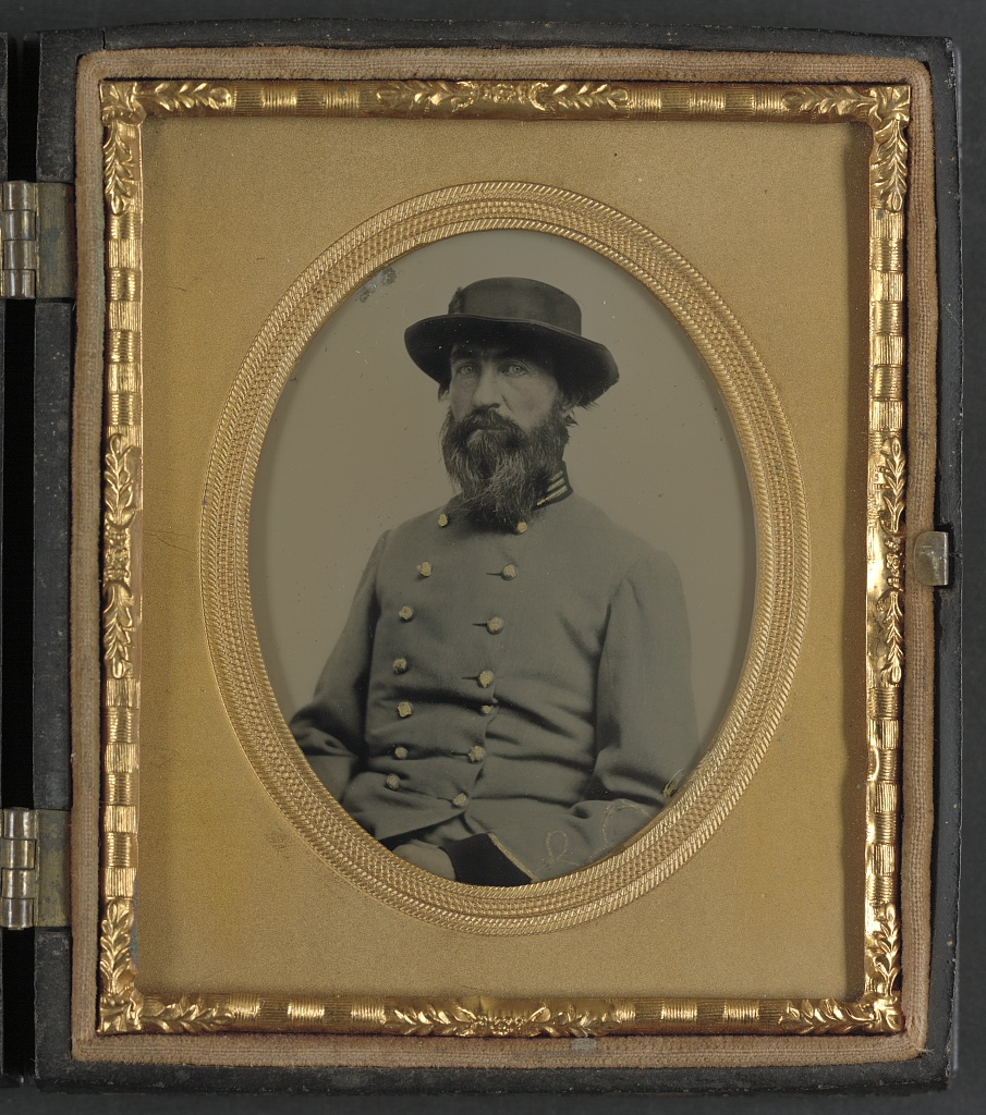 [Unidentified captain in Confederate uniform with black cuffs indicating surgeon] [between 1861 and 1865]